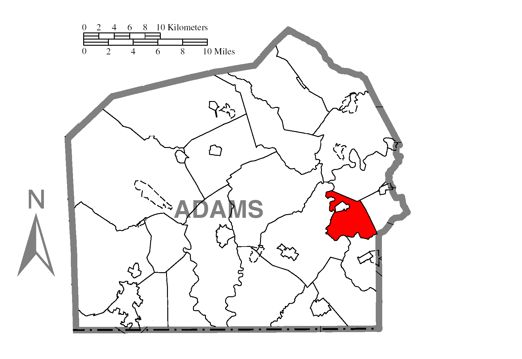 A map of Adams County showing Oxford Township, Pennsylvania (alternate) highlighted on the map.